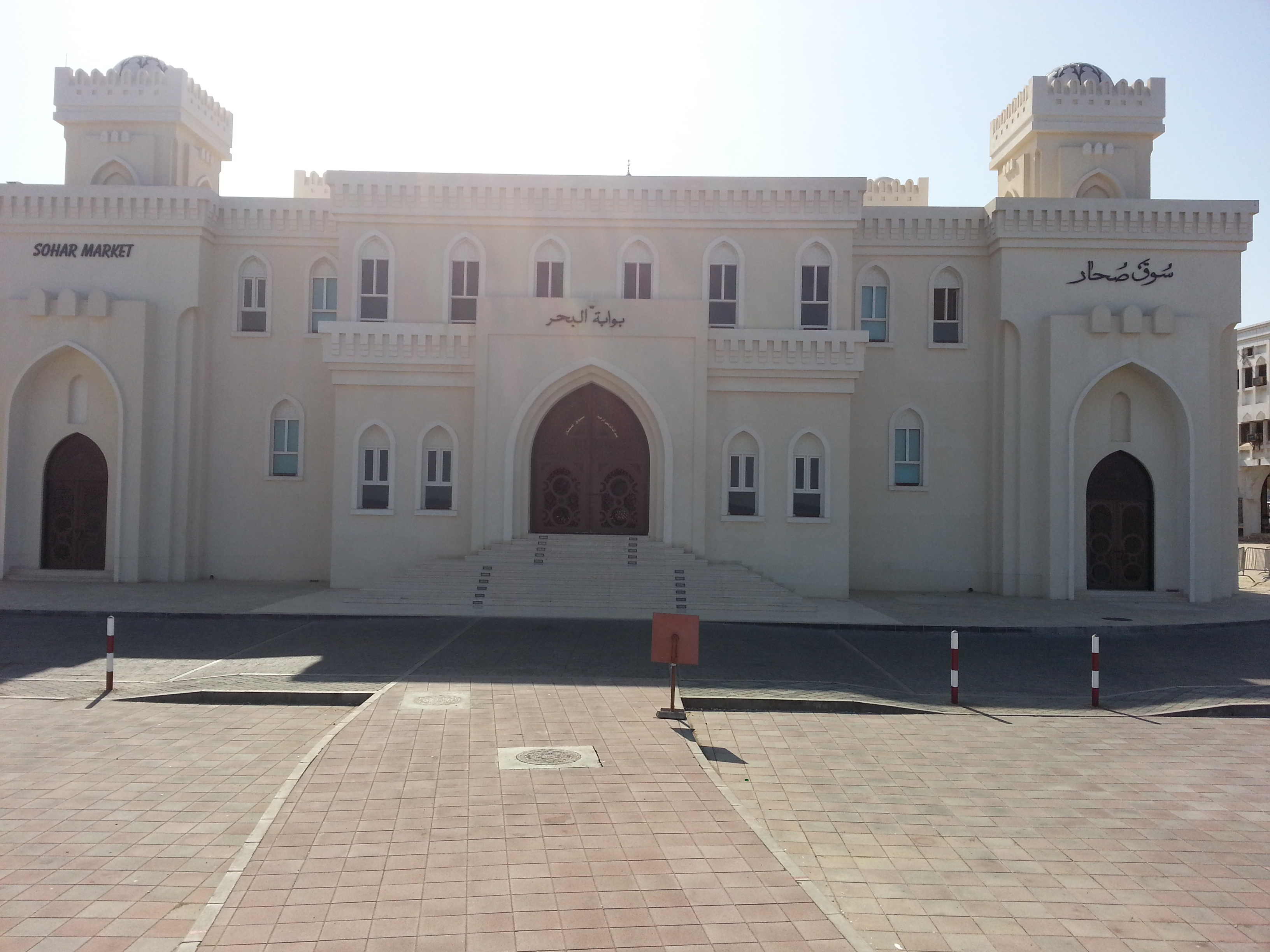 المدخل الأقرب للبحر